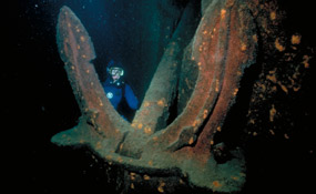 Diving the Emperor, Isle Royale national Park.